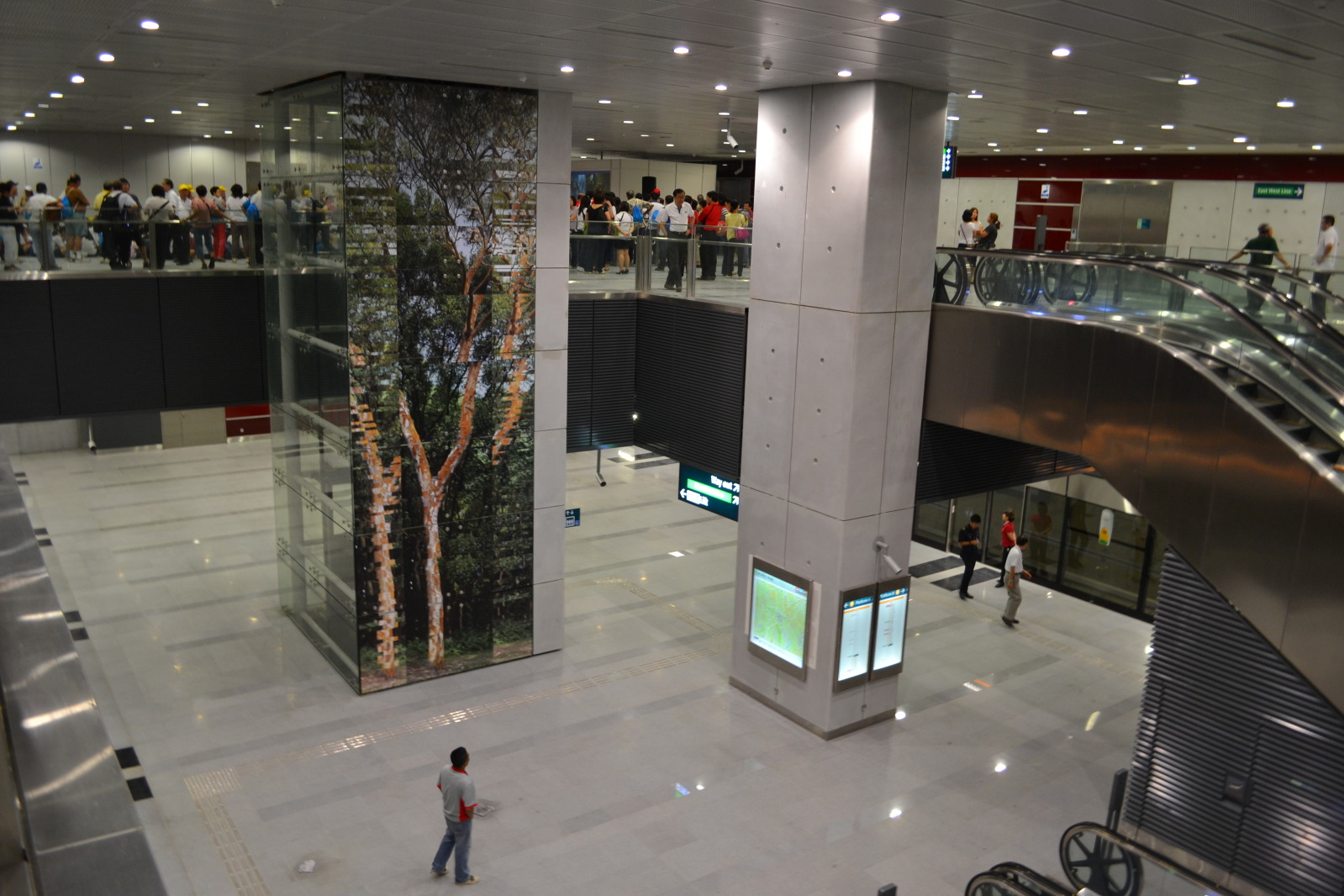 Interior of the Circle Line section of Buona Vista MRT Station, Singapore.